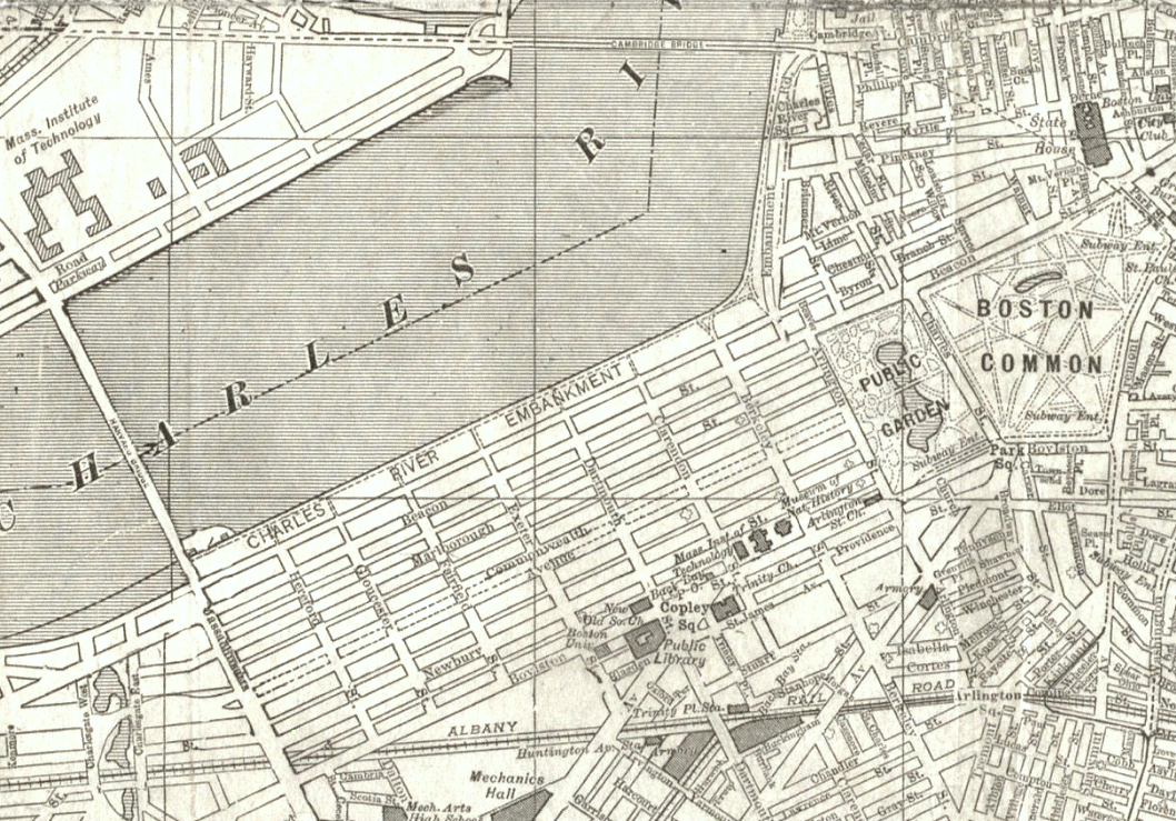 Detail of 1921 map of the city of Boston, showing Back Bay and vicinity